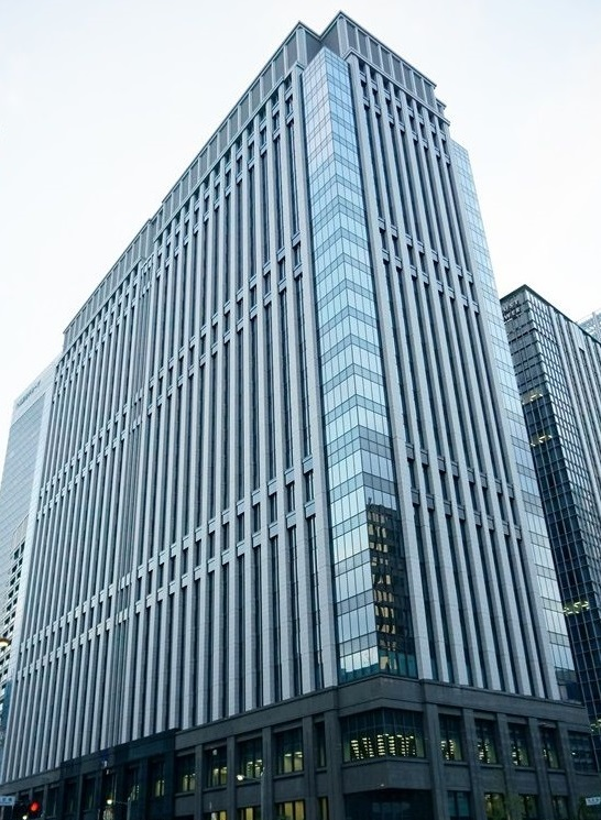 Tekkou Building Main